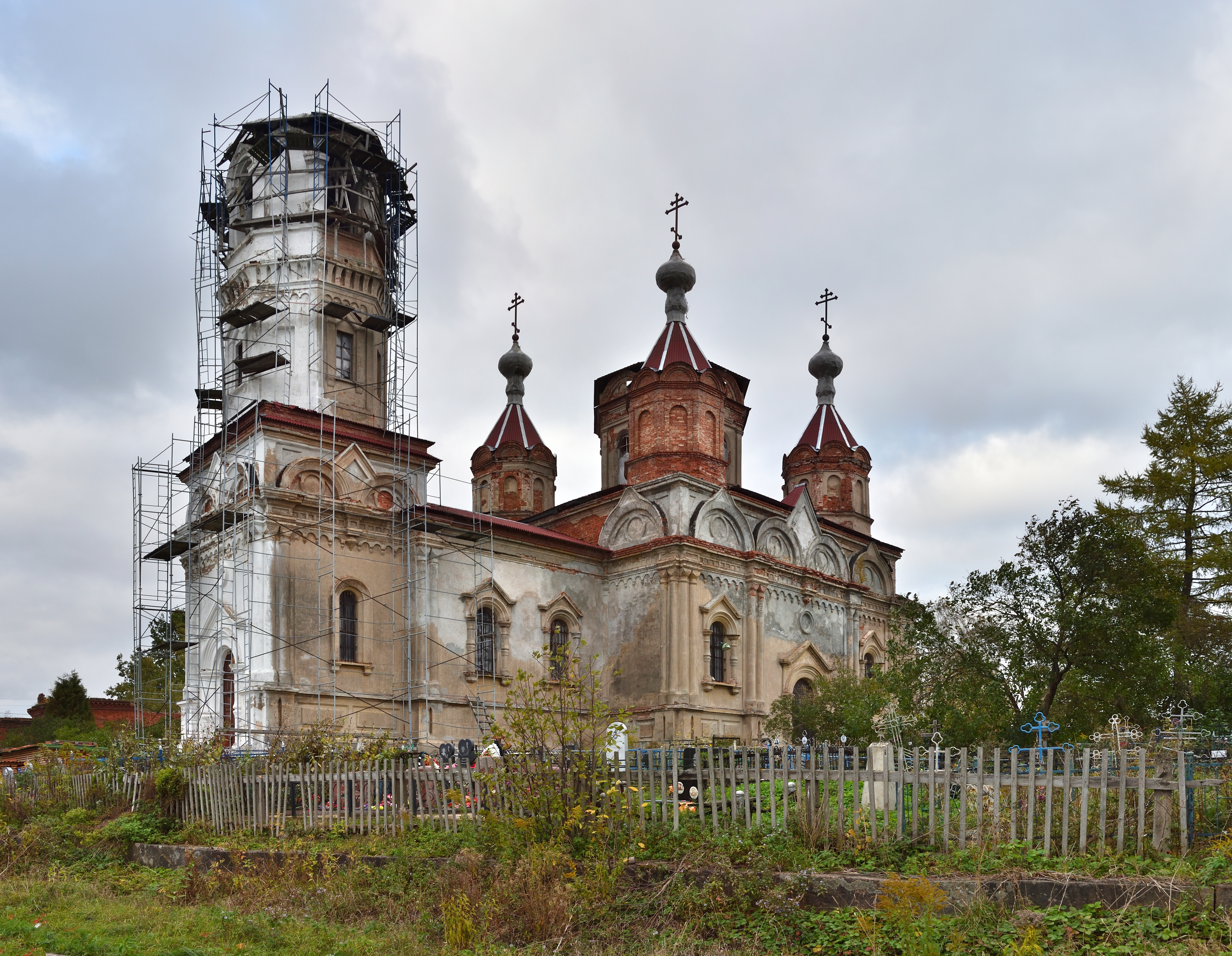 Tinity church, Issad, Volkhovsky dictrict, Leningrad oblast, Russia